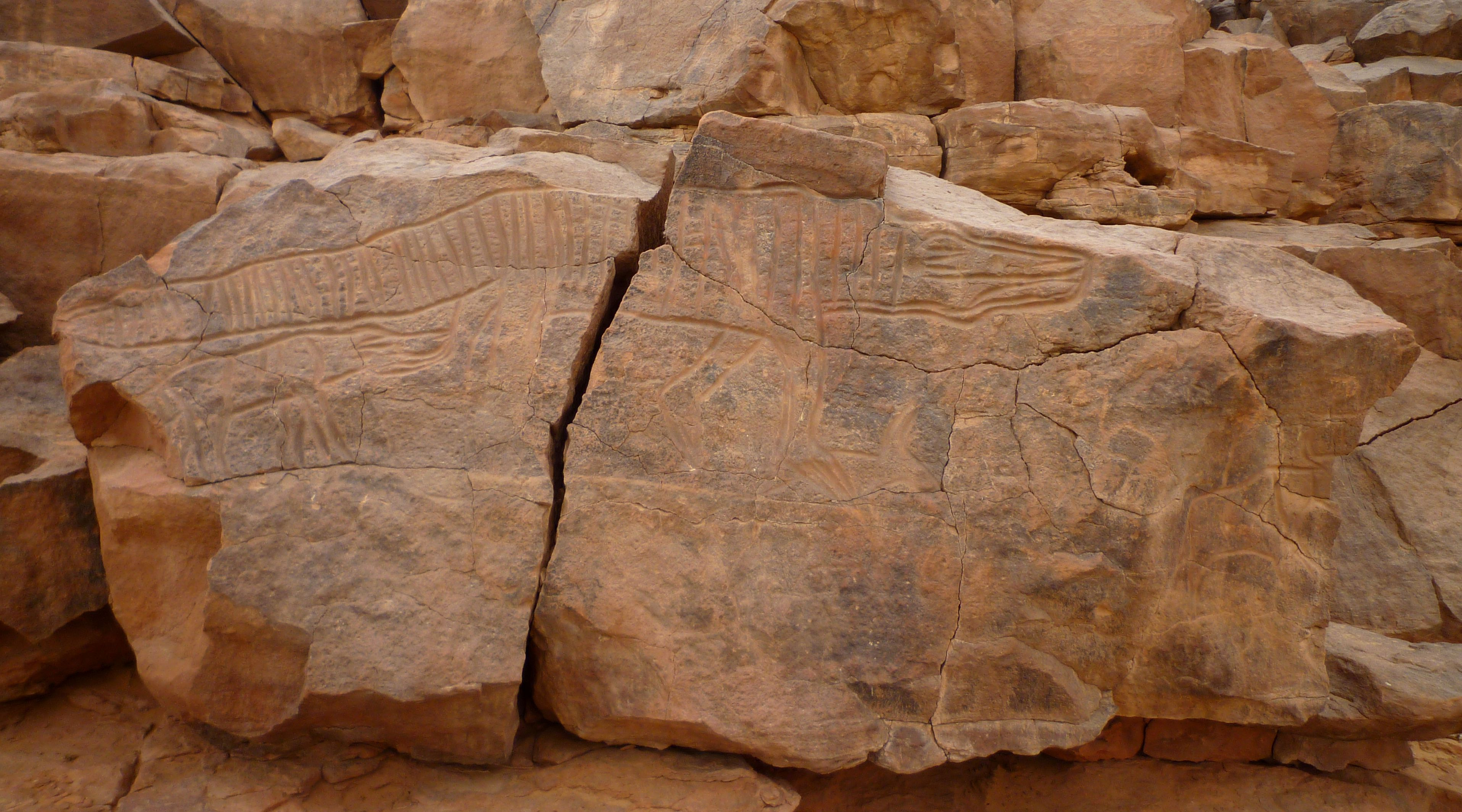 Petroglyph of animals, in Wadi Mathendous near Germa, Fezzan, southwestern Libya.